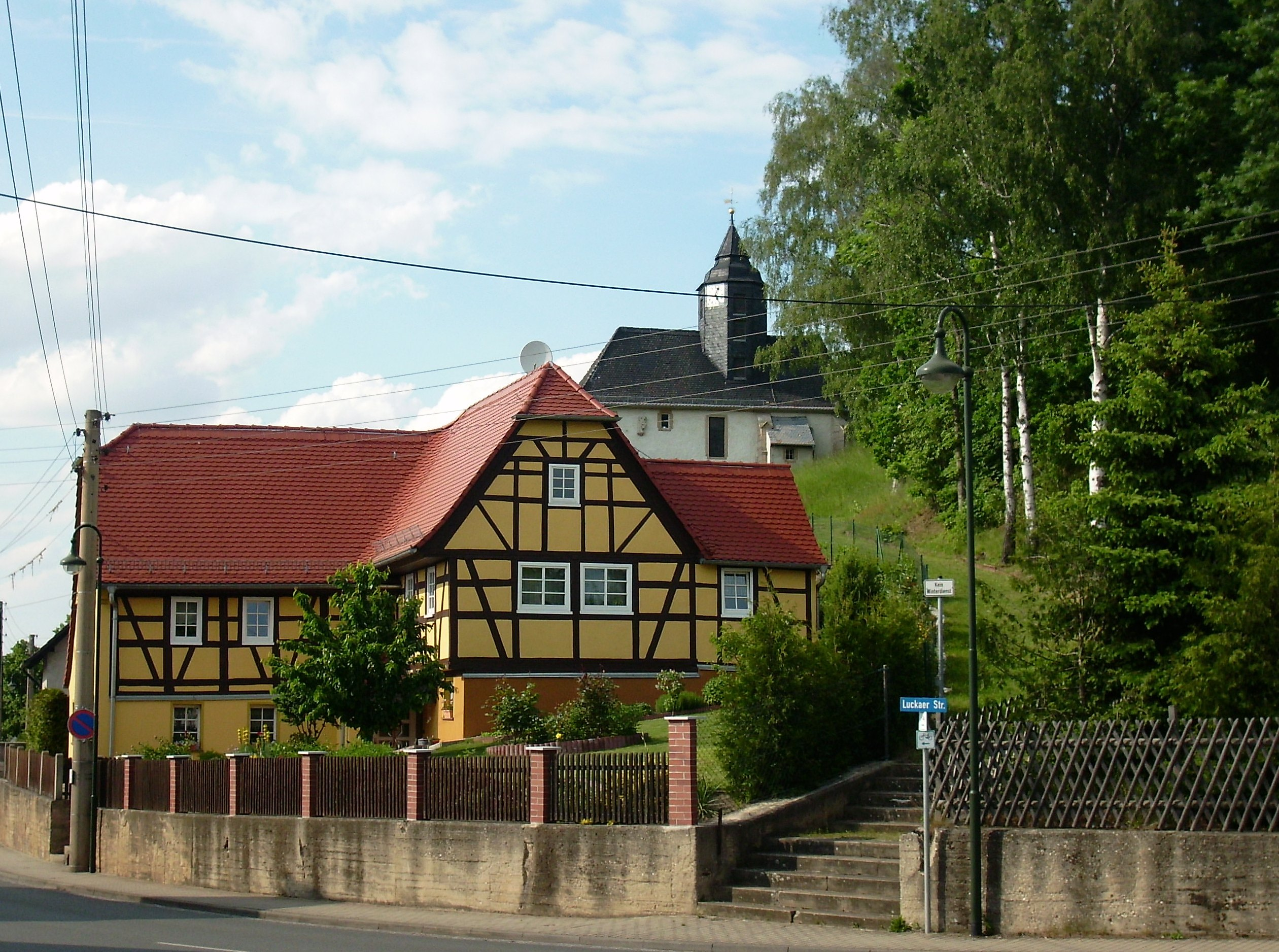 Church and half-timbered house in Gerstenberg (district of Altenburger Land, Thuringia)